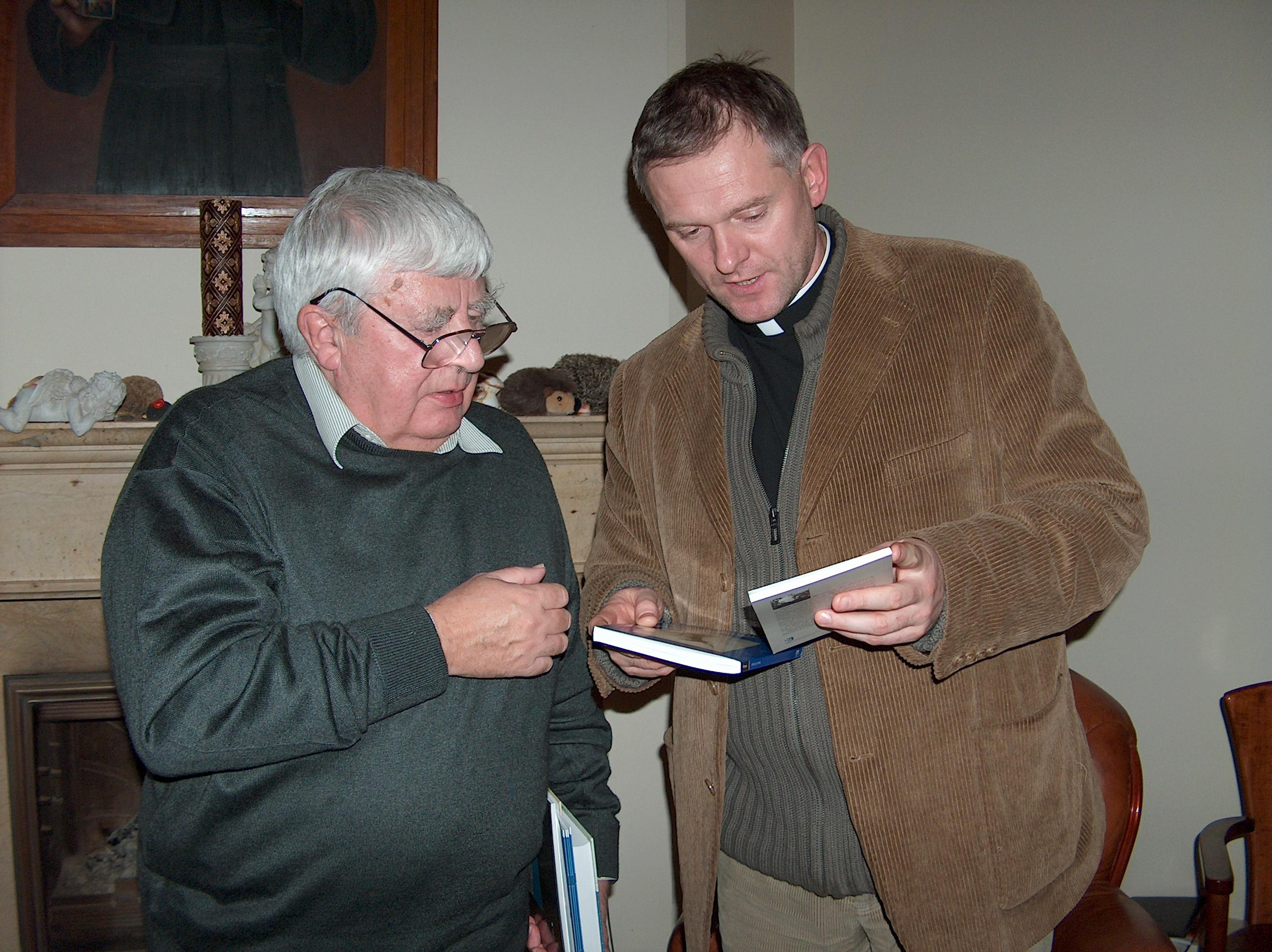 Julian Stolarczyk (left) and Piotr Krakowiak